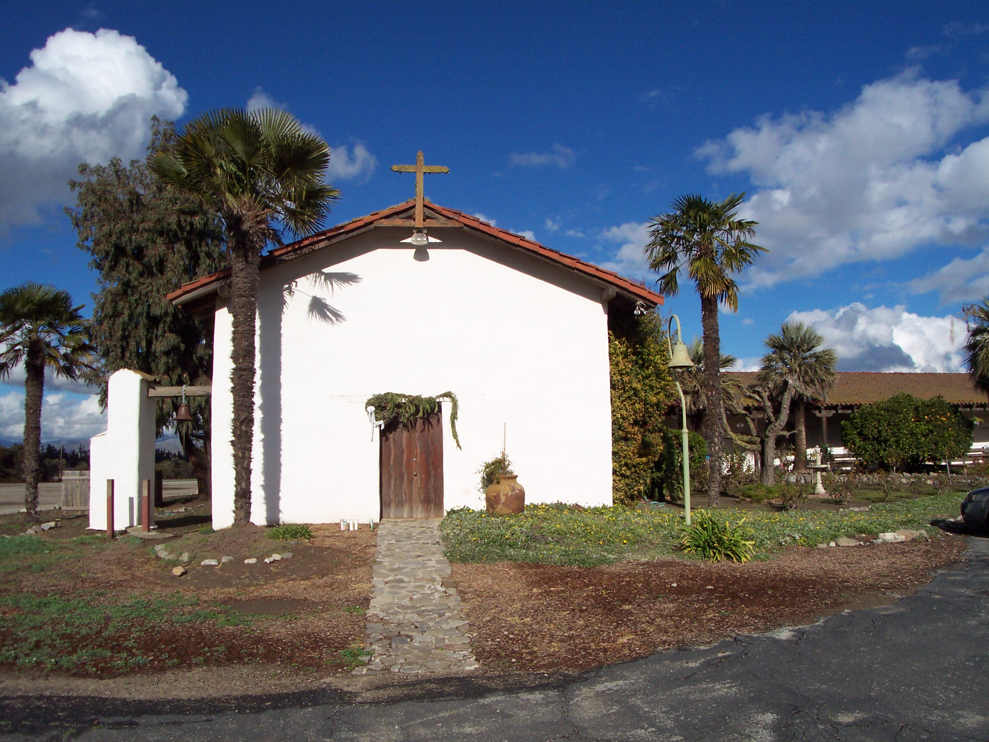 Mission Nuestra Senora de la Soledad — Salinas Valley. Near Soledad, Monterey County, California Photograph by Robert A. Estremo, copyright 2004.